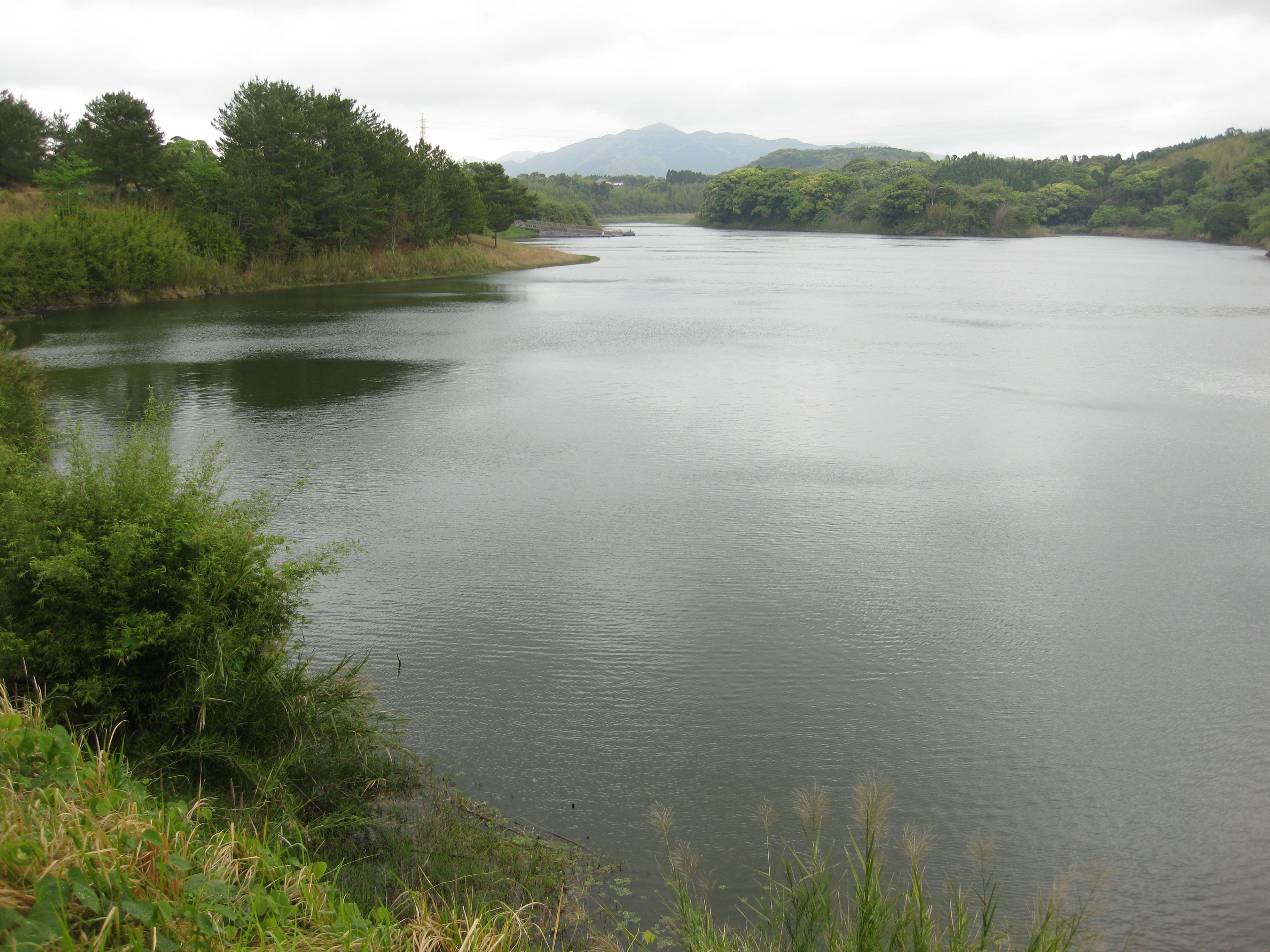 Lake Satsumako in Kagoshima, Japan